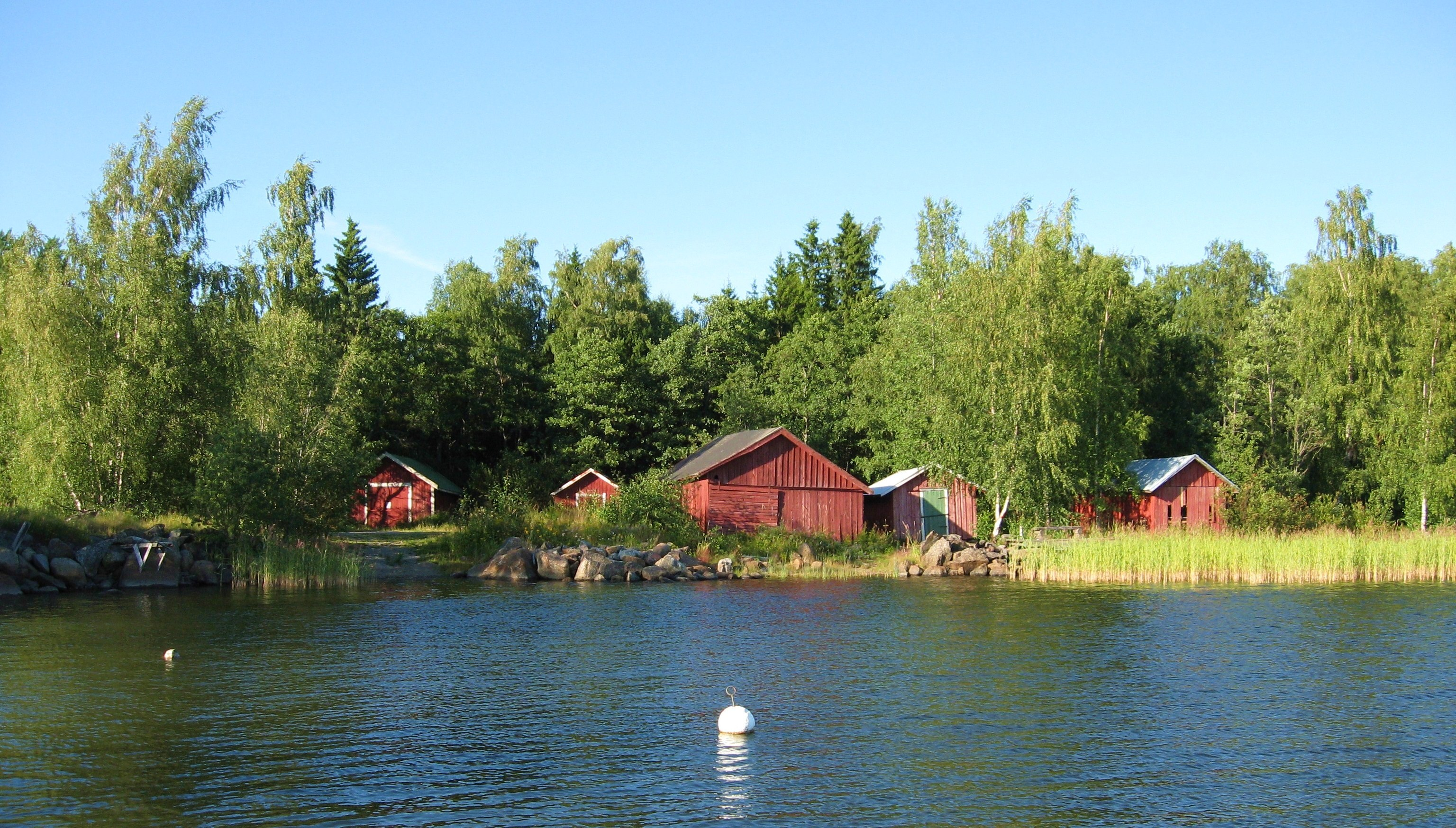 Boathouses at a distance in Grönvik village of Korsholm, Finland.